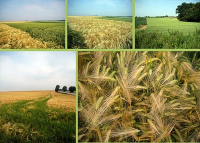 Fields in Orp-Jauche